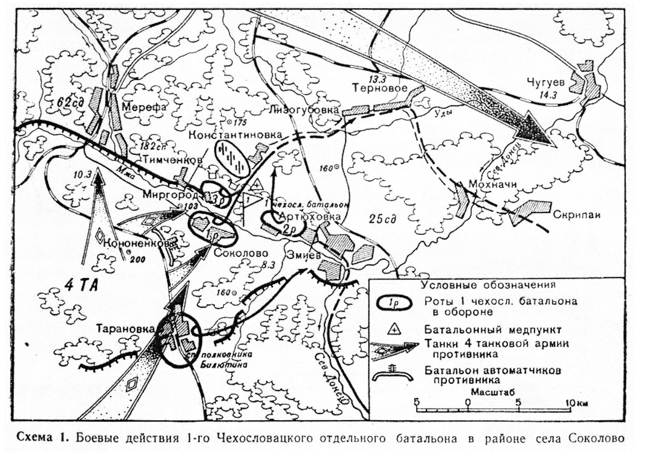 Battle of Sokolovo